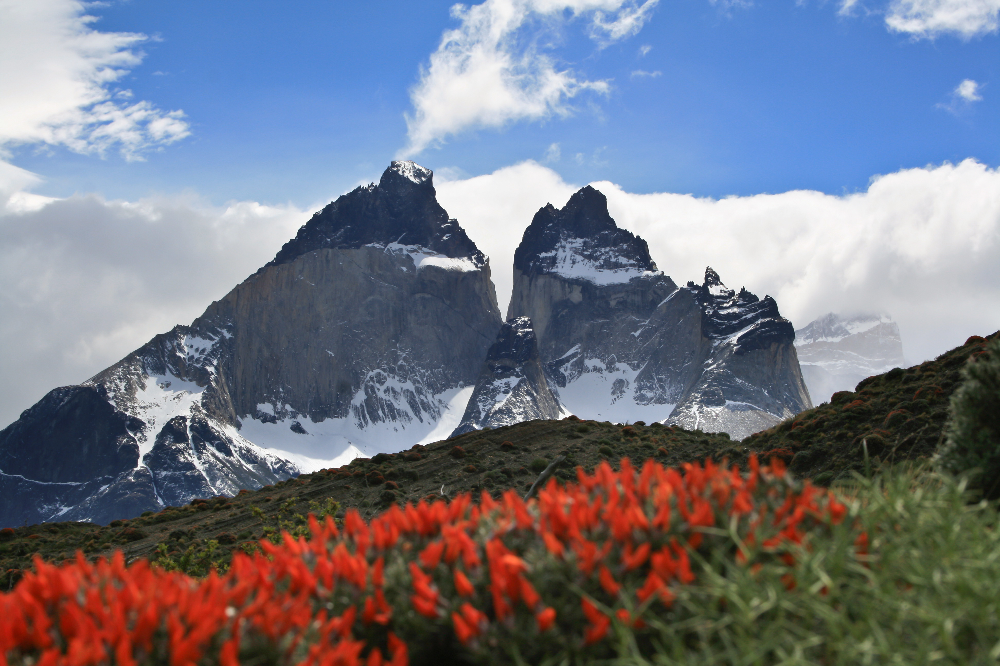 Cuernos del Paine, Torres del Paine National Park, Chile